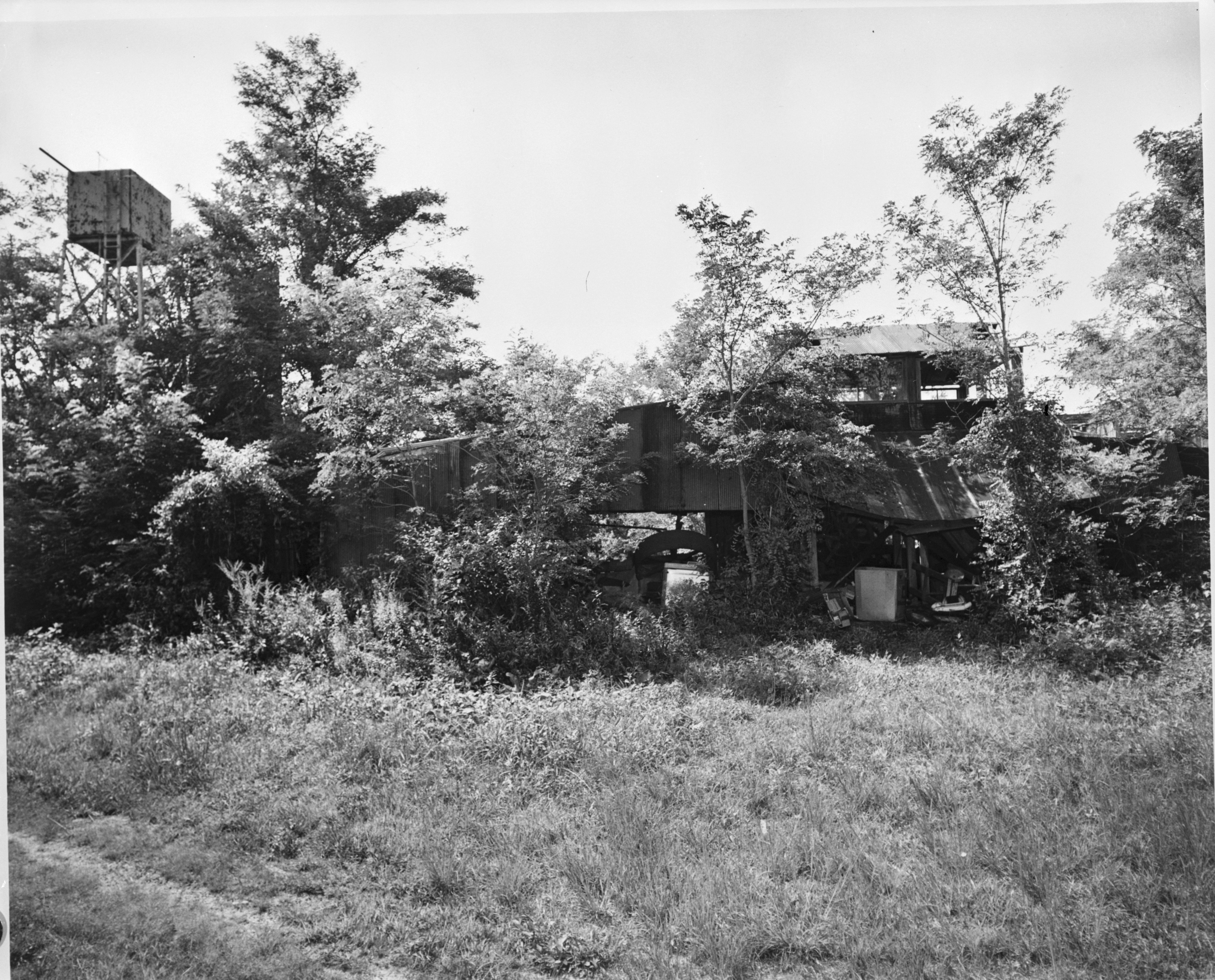 J. H. Wilkerson & Sons Brick Works, Front Street (Road 409), Milford, Sussex County, DE